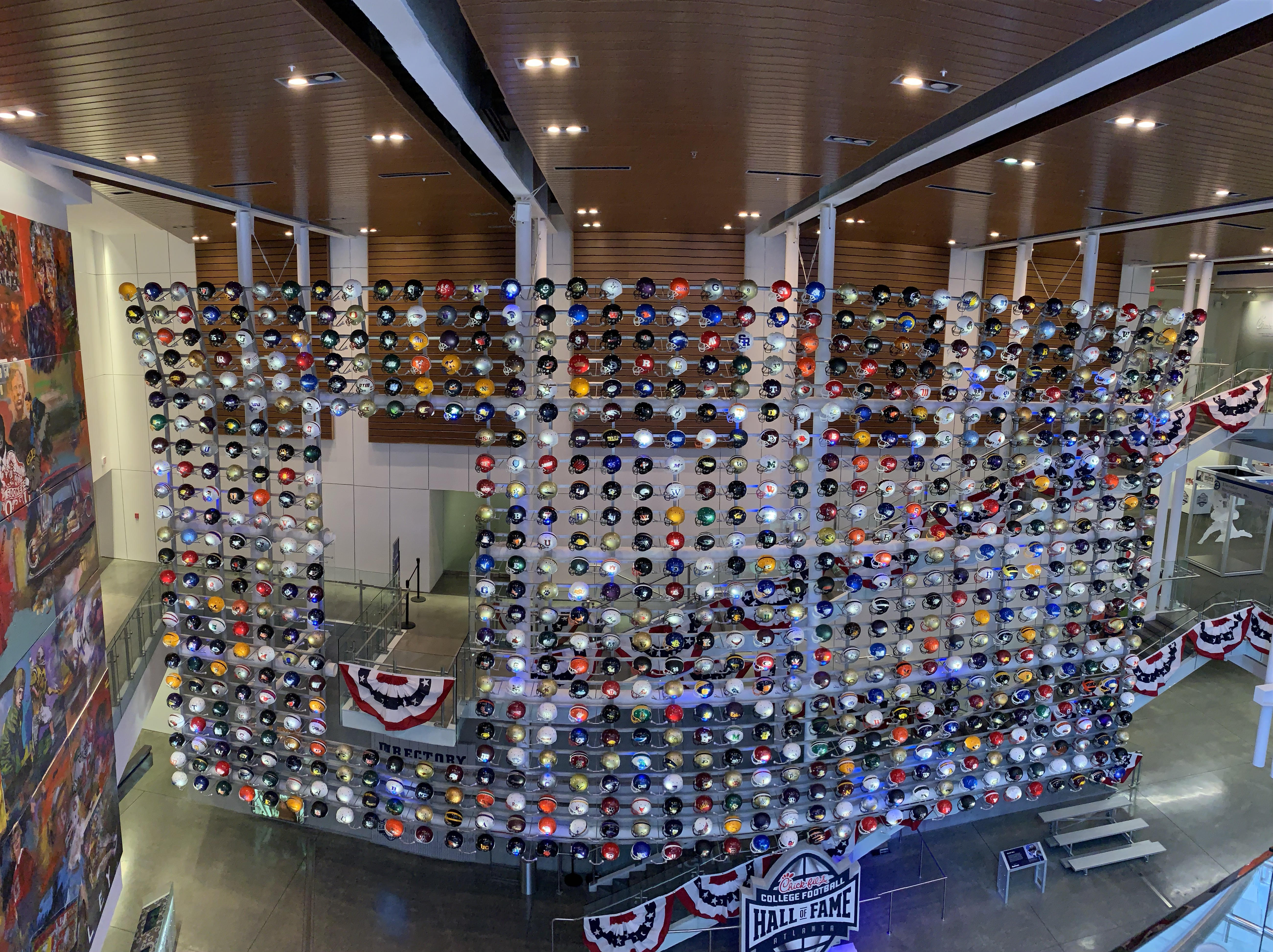 Wall of college football helmets on display at the College Football Hall of Fame in Atlanta, Ga.